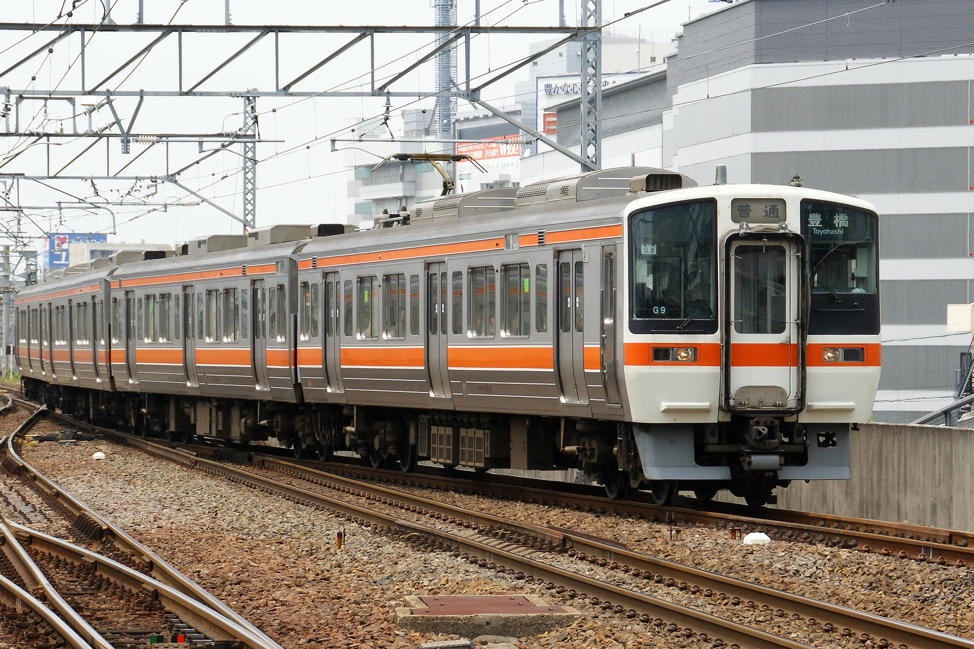 JR Central 311 Series set G9